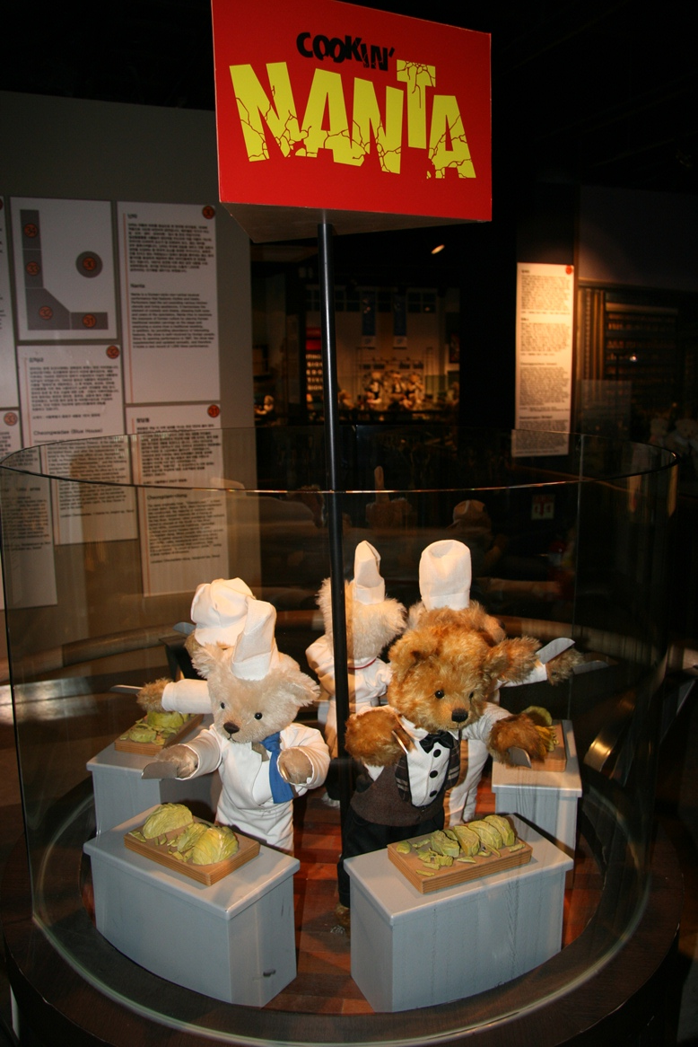 South Korean non-verbal comedy show Cookin' Nanta teddy bear display at the Teddy Bear Museum in N Seoul Tower, South Korea